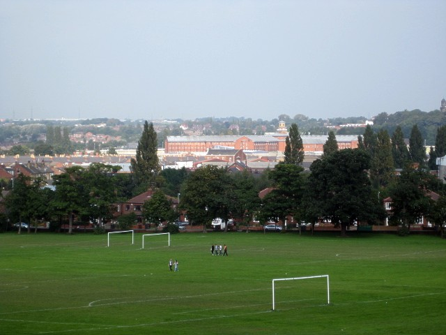 Wakefield skyline Wakefield prison dominates the skyline in this view from Clarence Park.